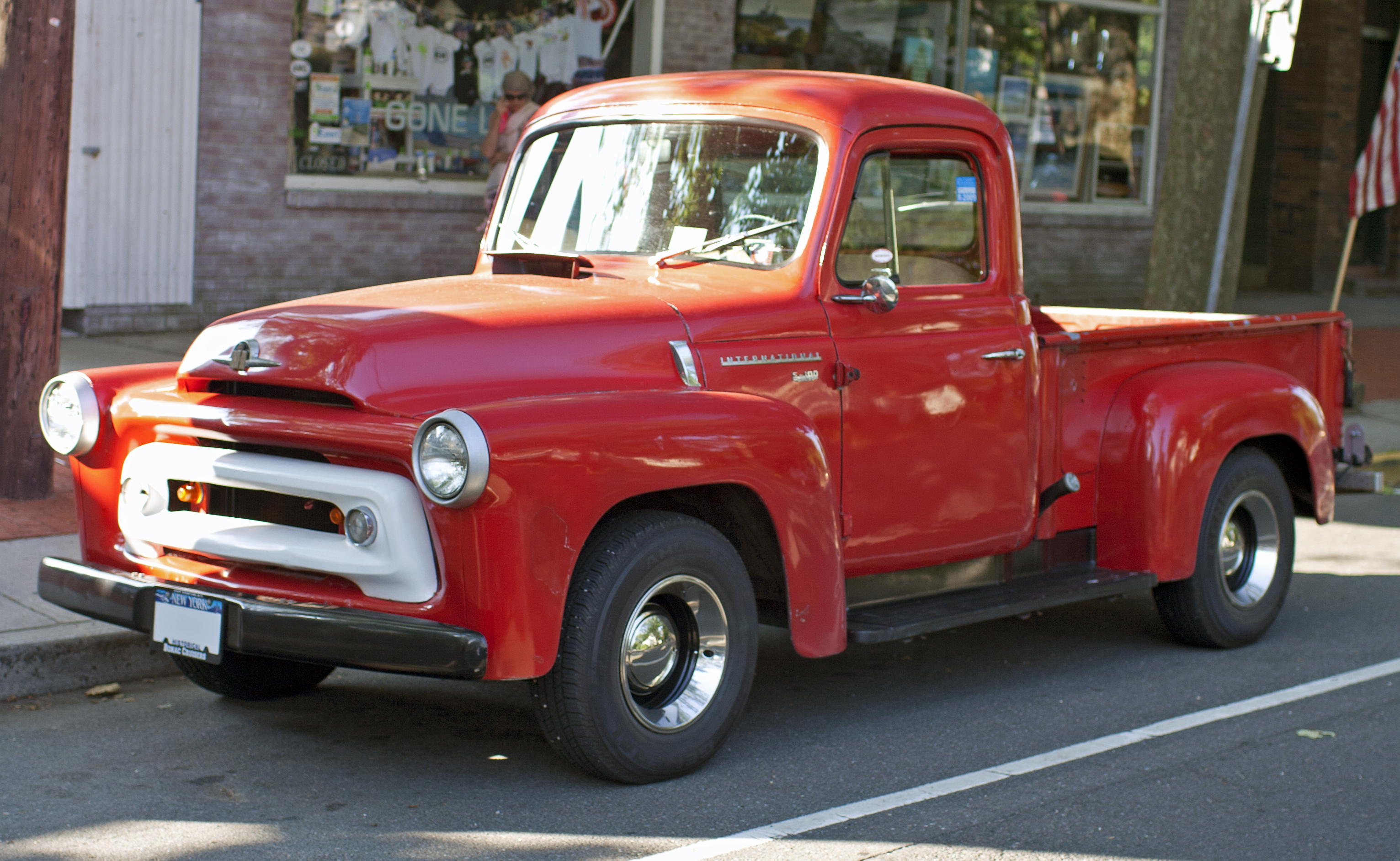 1956 International Harvester S100 in East Hampton, NY.